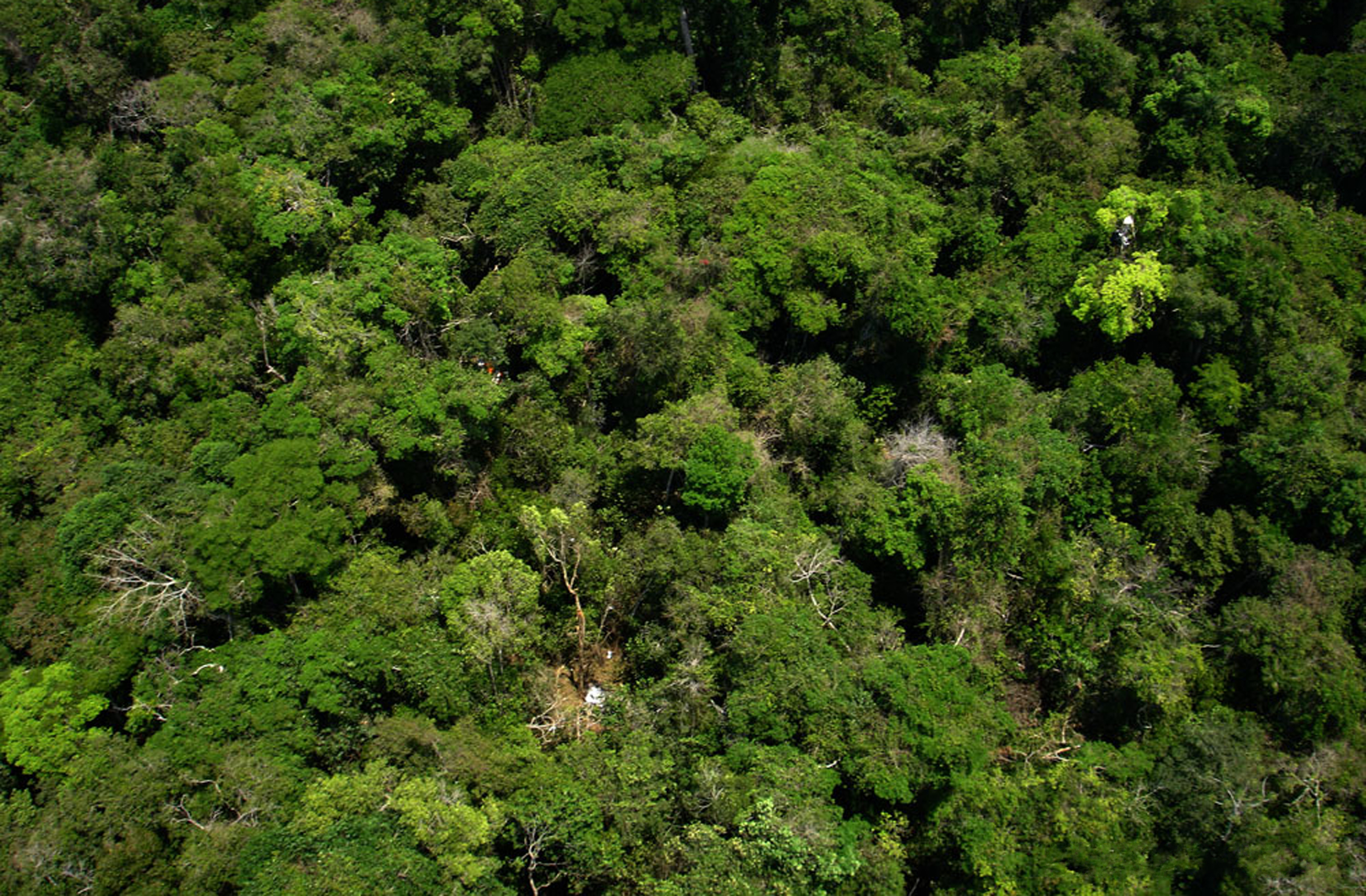 Crash site of Gol Transportes Aéreos Flight 1907, 192 km ESE of Peixoto de Azevedo, Mato Grosso, Brazil.